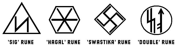 Depiction of the so-called "runes" displayed on the outside of the SS Totenkopf Ring. The Sig Rune is displayed twice.